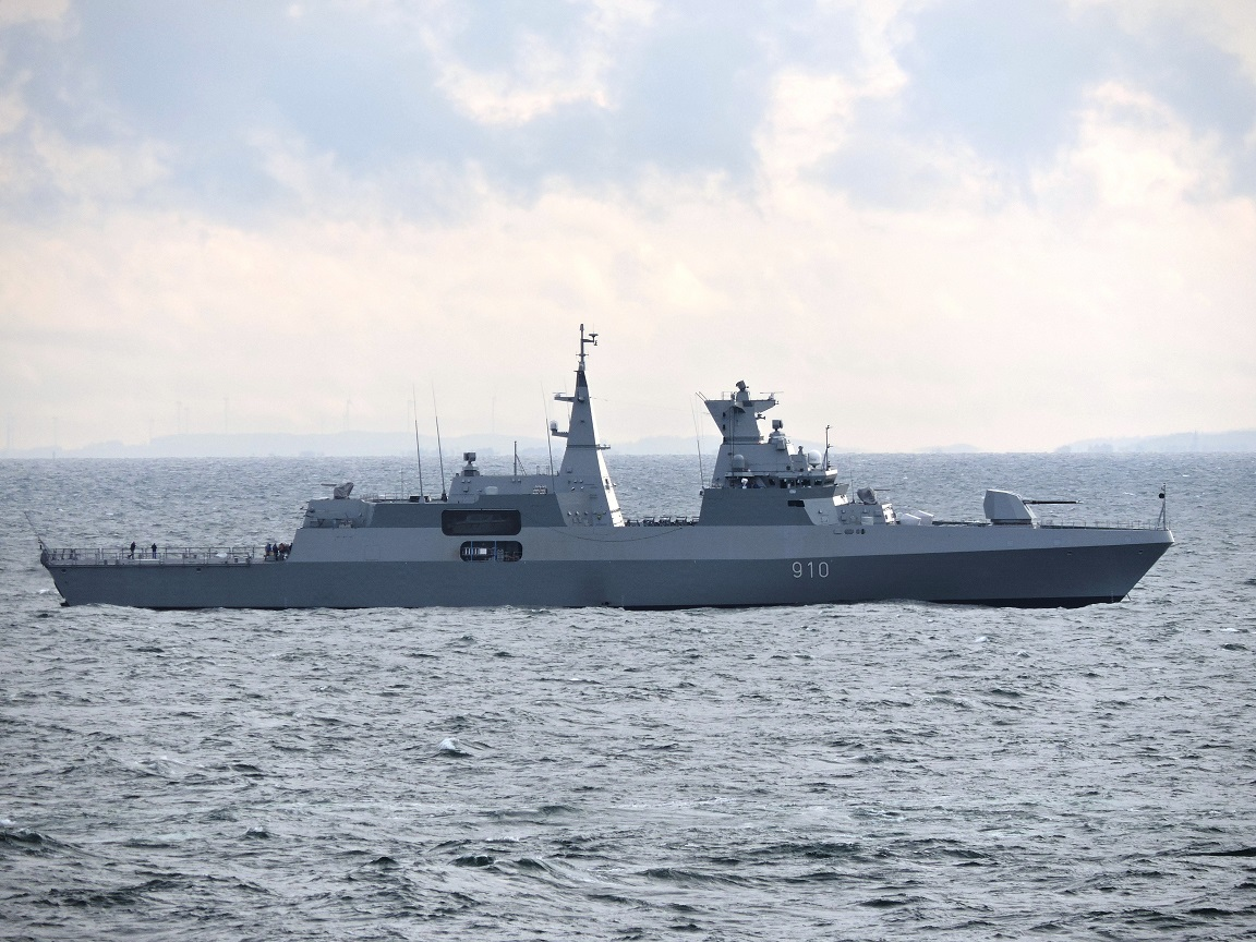 The first of two new MEKO A-200 frigates for the Algerian Naval Forces.